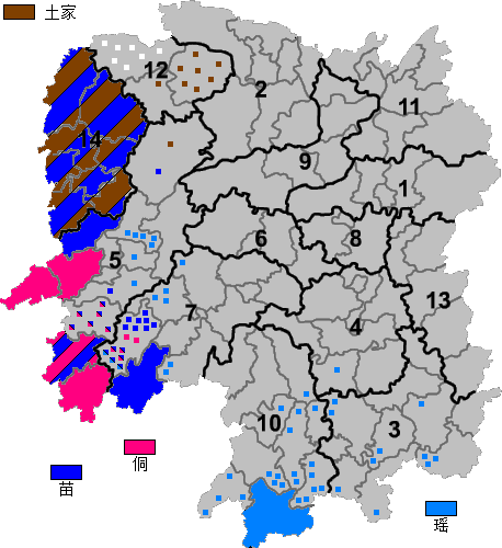 Ethnic minorities areas in Hunan